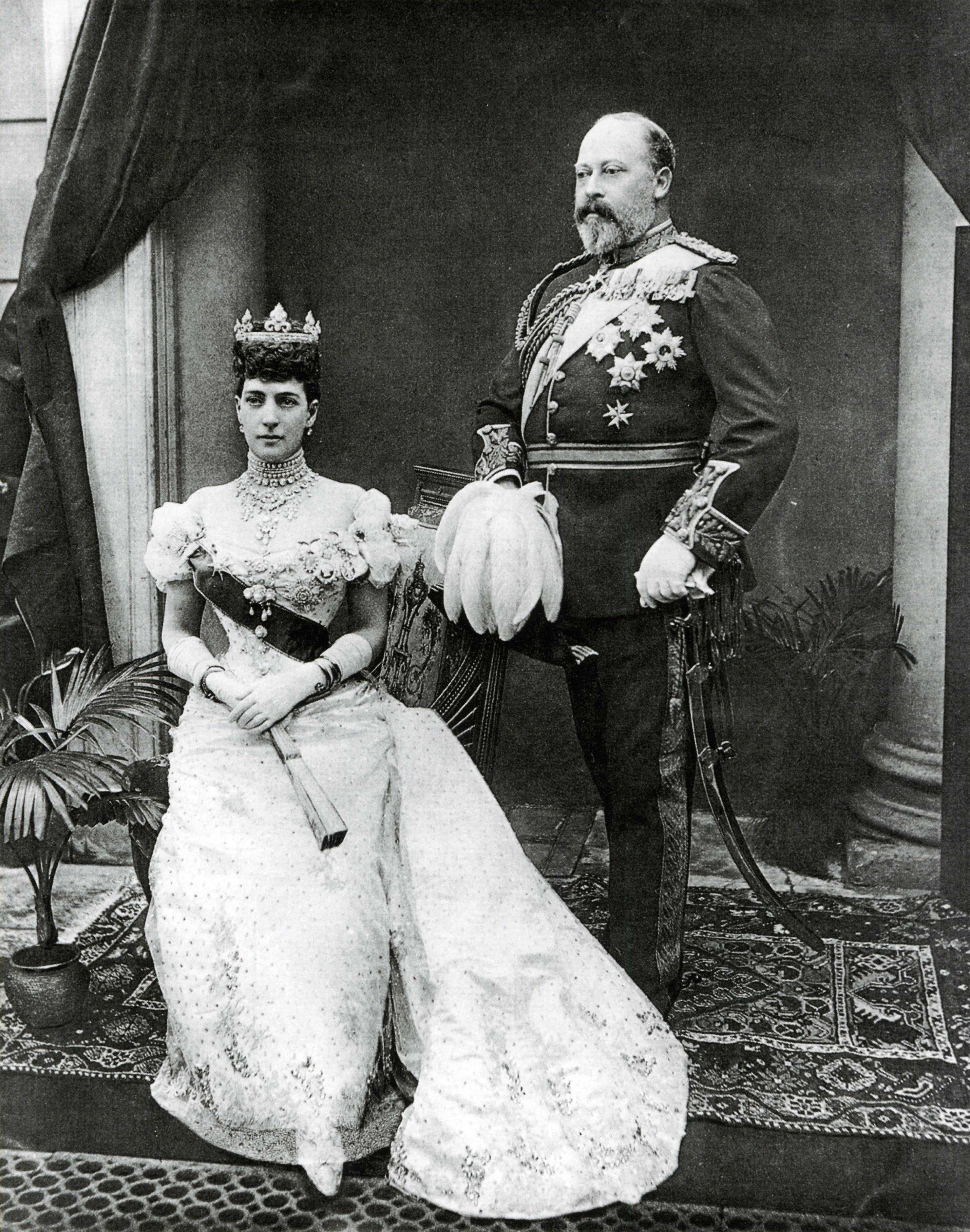 This image is a JPEG version of the original PNG image at File: Edward VII and Alexandra after Gunn & Stuart.png. Generally, this JPEG version should be used when displaying the file from Commons, in order to reduce the file size of thumbnail images. However, any edits to the image should be based on the original PNG version in order to prevent generation loss, and both versions should be updated. Do not make edits based on this version. See here for more information. Edward VII and Alexandra, by Rembrandt Photogravure, after Gunn & Stuart. photogravure, 1896. 11 3/8 in. x 9 in. (288 mm x 230 mm). National Portrait Gallery: NPG x22287 While Commons policy accepts the use of this media, one or more third parties have made copyright claims against Wikimedia Commons in relation to the work from which this is sourced or a purely mechanical reproduction thereof. This may be due to recognition of the "sweat of the brow" doctrine, allowing works to be eligible for protection through skill and labour, and not purely by originality as is the case in the United States (where this website is hosted). These claims may or may not be valid in all jurisdictions. As such, use of this image in the jurisdiction of the claimant or other countries may be regarded as copyright infringement. Please see Commons:When to use the PD-Art tag for more information.See User:Dcoetzee/NPG legal threat for original threat and National Portrait Gallery and Wikimedia Foundation copyright dispute for more information. This tag does not indicate the copyright status of the attached work. A normal copyright tag is still required. See Commons:Licensing.